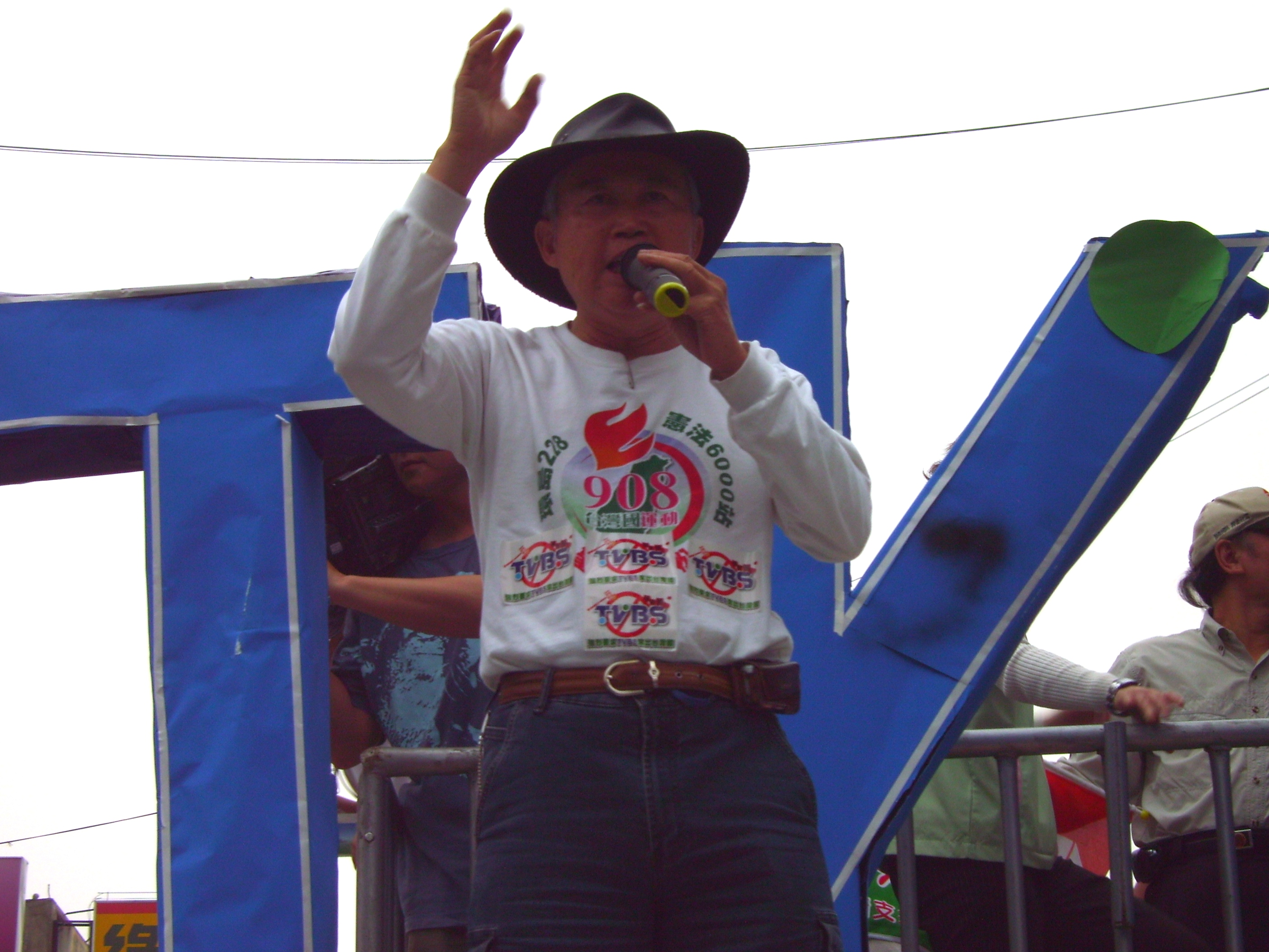 Peter Hsien-chi Wang, leader of the 908 Taiwan Republic Campaign.